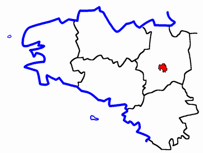 Map for localisazion of cantons of Pays-de-Loire, region in France